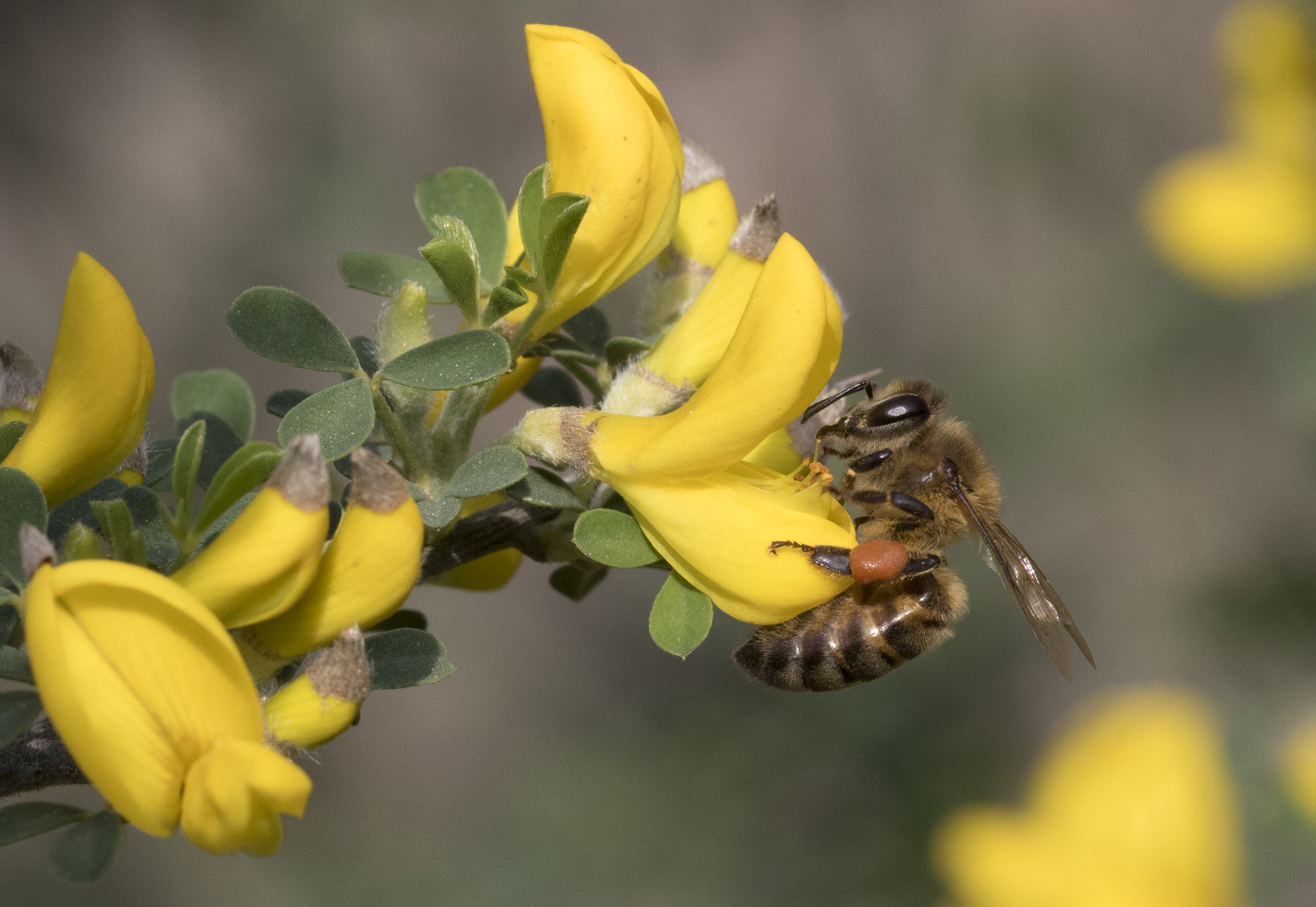 A honeybee (Apis mellifera) nectaring on flowers of spiny broom (Calicotome villosa), an important source for honey and pollen production in spring in Meditteranean basin. Balcalı, Adana - Turkey.